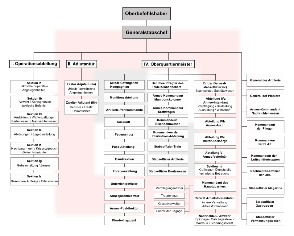 Organization Chart of the Imperial German Army Command 7 (7th Army) in 1918 during World War I. The information is mainly drawn from the book: Herman Cron: Die Organisation des deutschen Heeres im Weltkriege, Berlin 1923, pp.30-35.